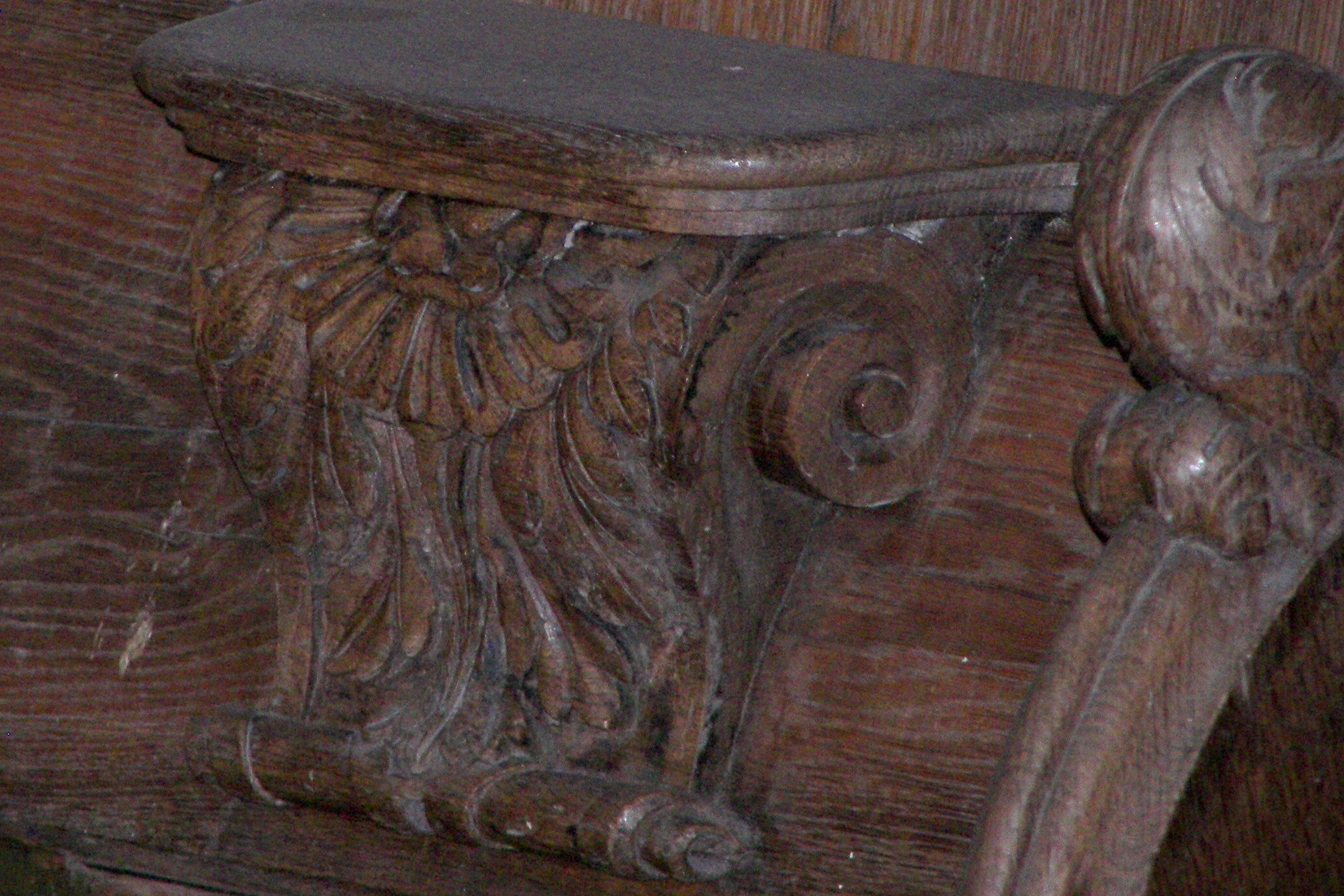 Misericord from St Ouen abbaye of Rouen (FRANCE)